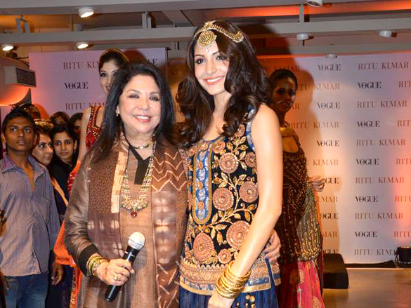 Ritu kumar flagship store launch